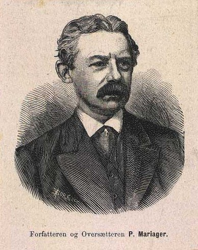 Peter Mariager (1827-1894), Danish writer